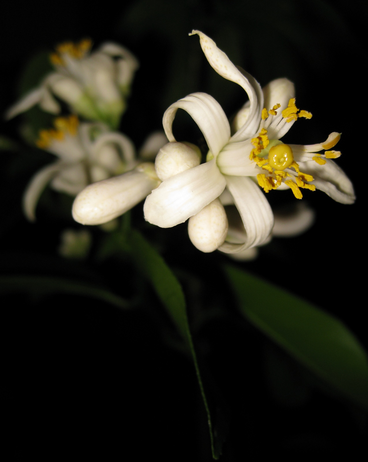 Picture displays an Improved Meyer Lemon in bloom.